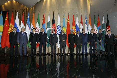 Shanghai Cooperation Organisation summit, Yekaterinburg, Russia, 2009.